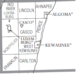 Administrative composition of Kewaunee County